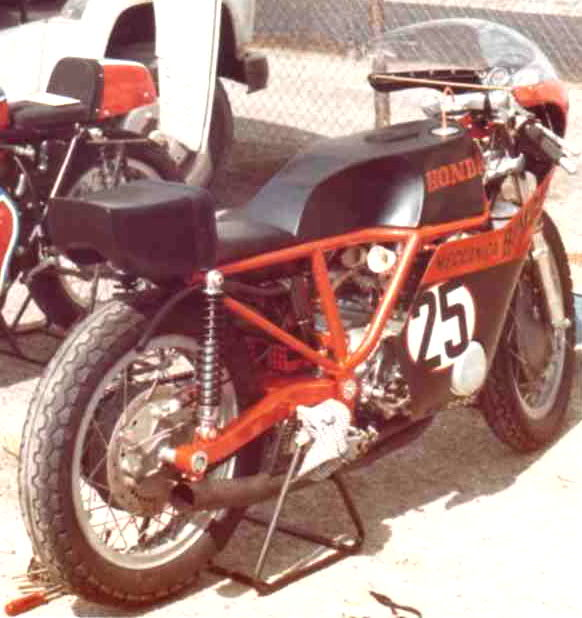 Bimota Honda HB1 at Imola racetrack, Italy in 1973